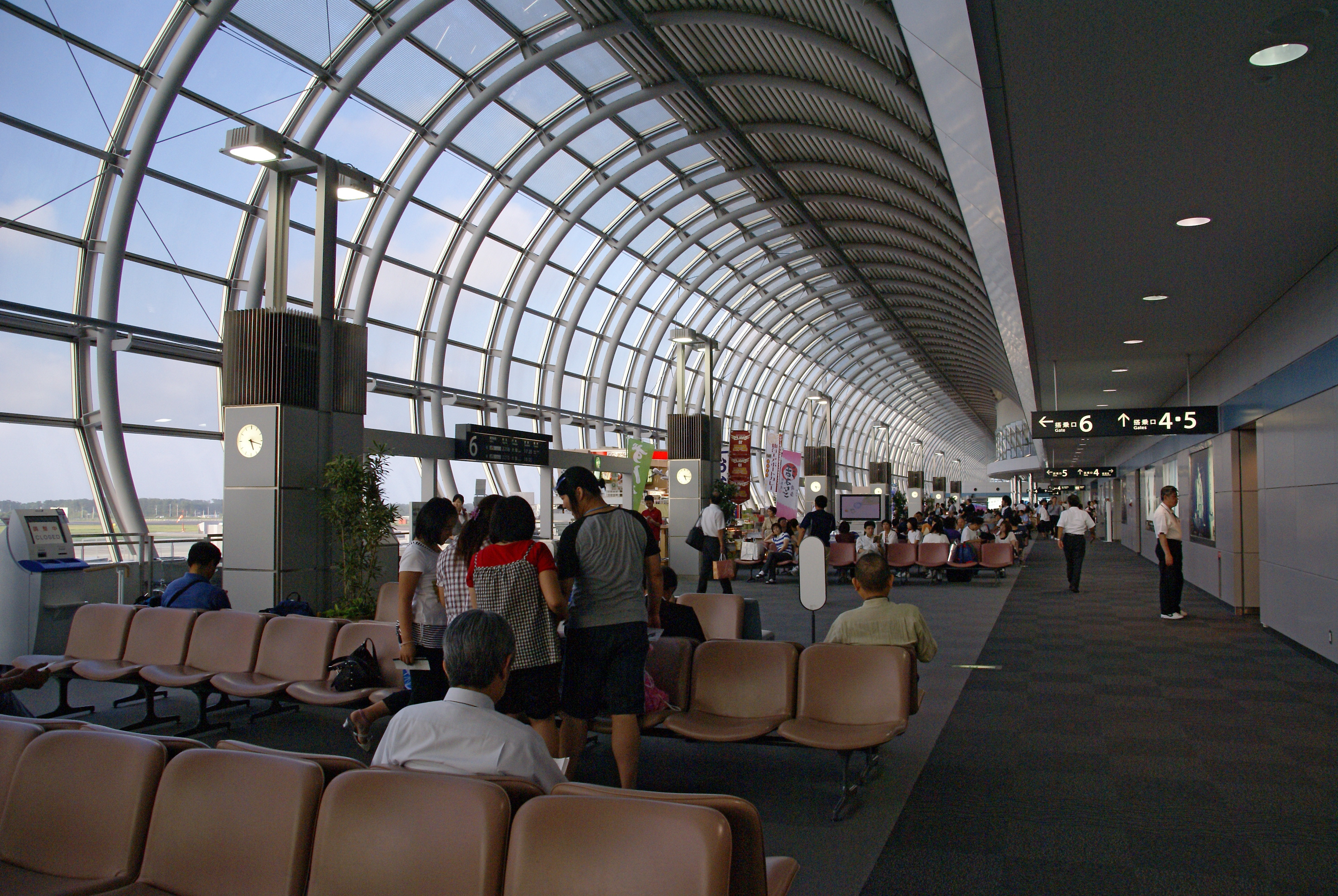 Sendai Airport in Natori and Iwanuma, Miyagi prefecture, Japan